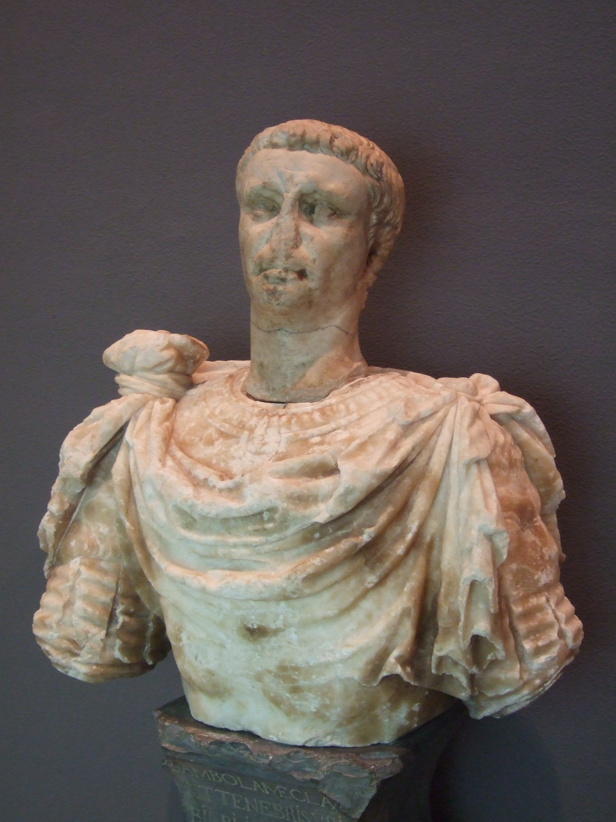 Bust of emperor Claudius (41-51 AC). Bilbilis. Lubrín marmor (Almería). Museo de Zaragoza.